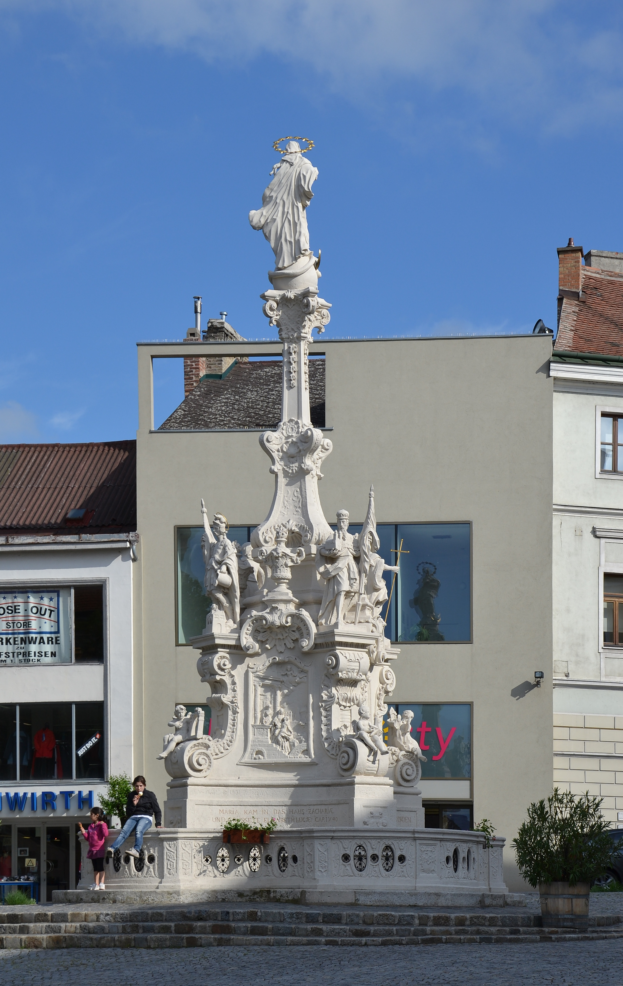 Hainburg an der Donau, Lower Austria: Marian column.